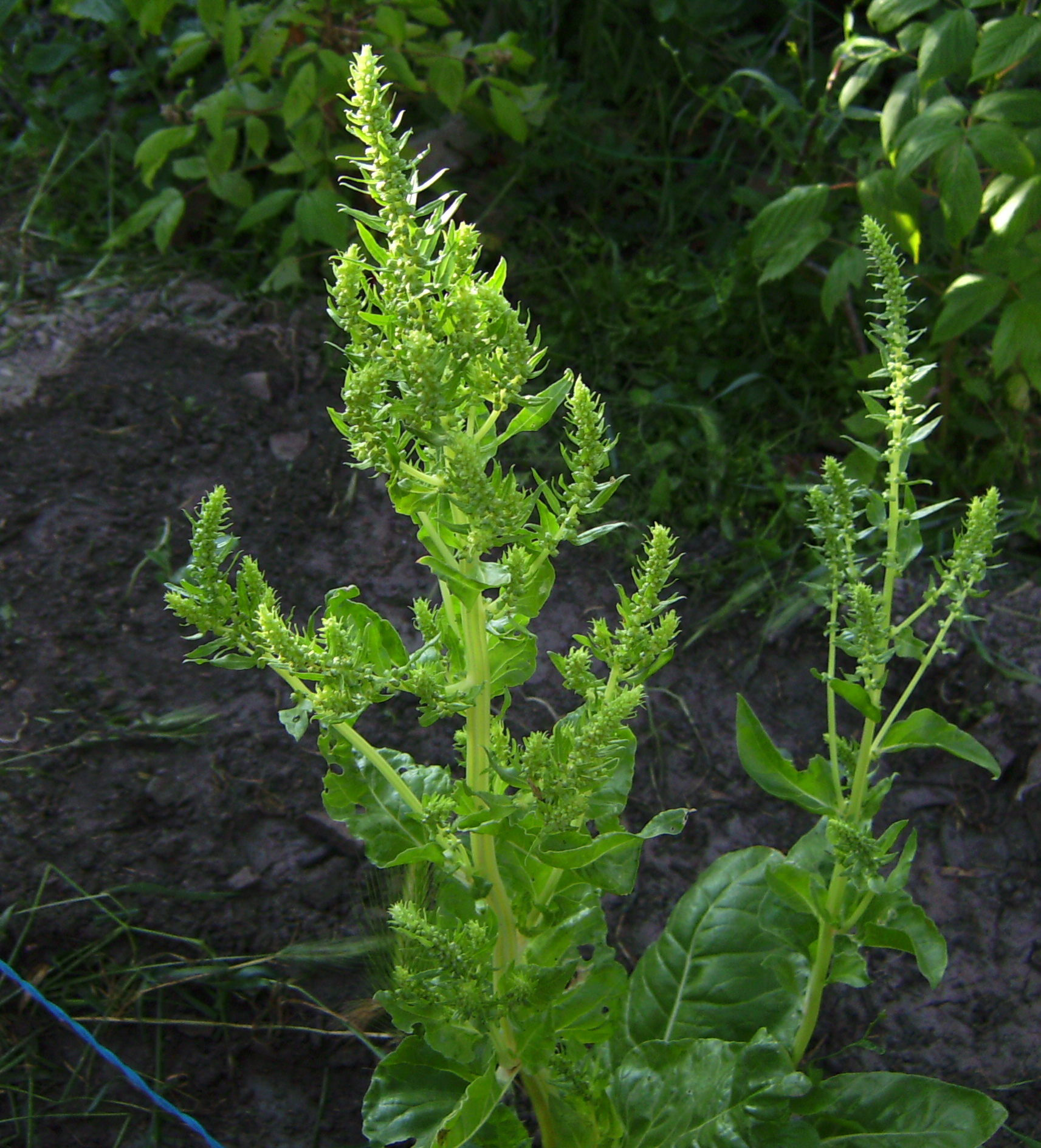 Beta vulgaris subsp cicla (Swiss chard) flowering planta, Castelltallat, Catalonia